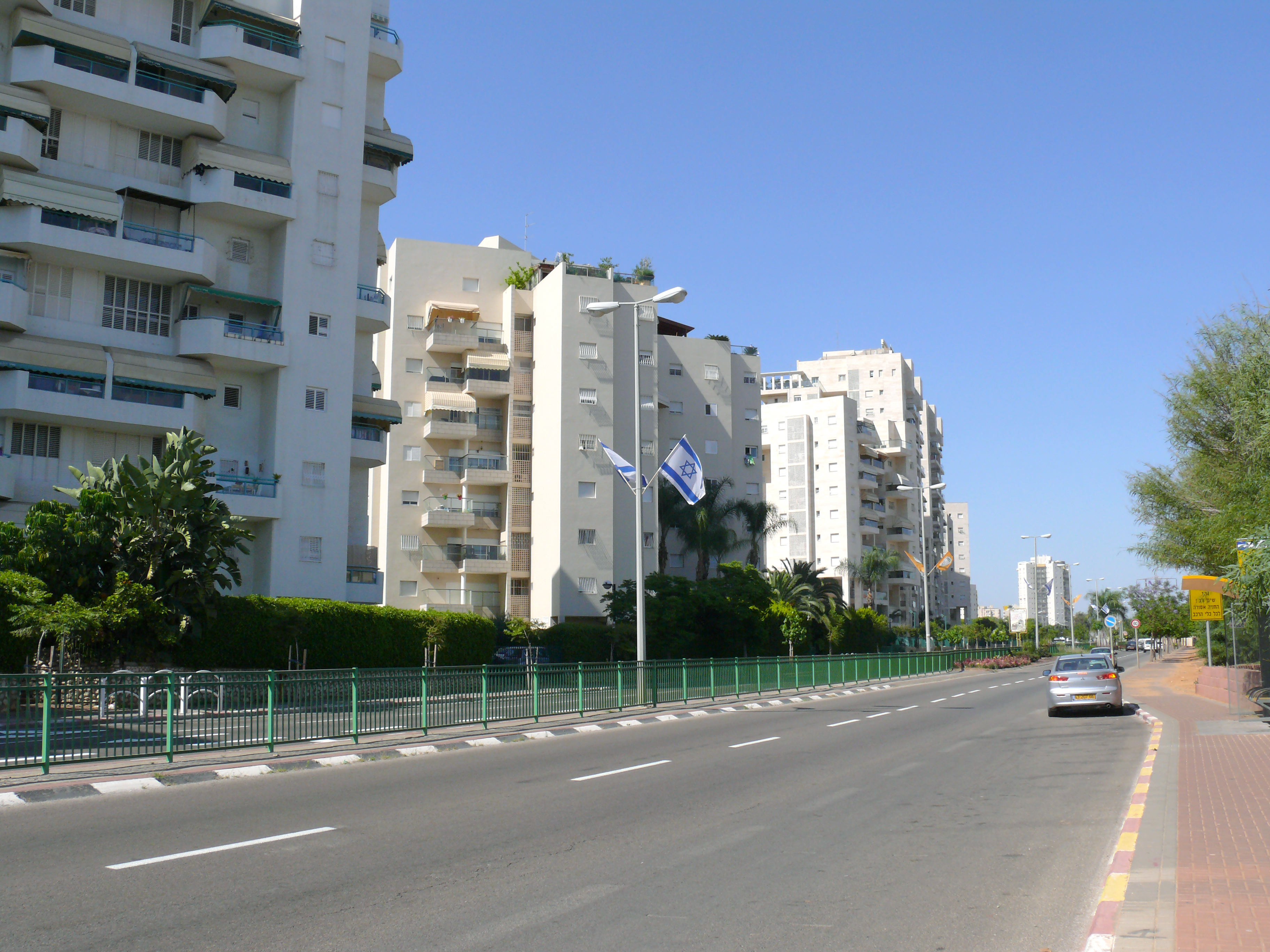 Yigal Alon boulevards, Rishon LeZion, Israel